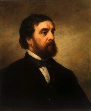 Portrait of Henry Theodore Tuckerman. Oill on Canvas. 68,8 x 56.2 cm. National Gallery of Art, Washington, DC.